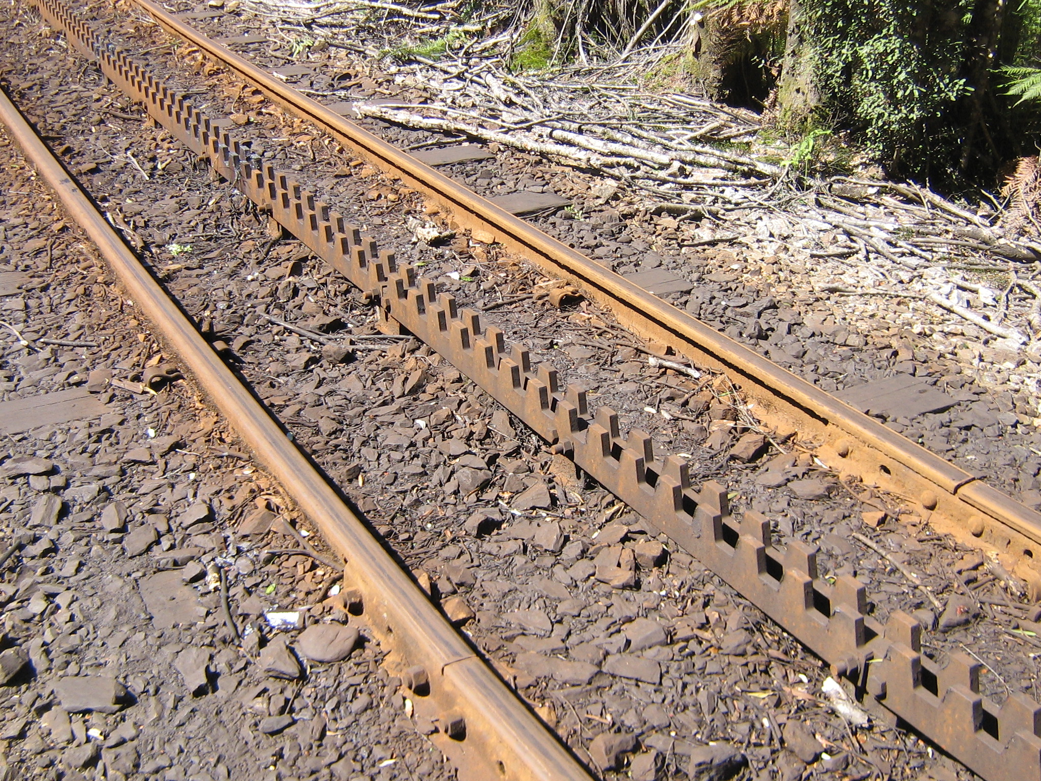 Abt rack system double-rack railway on the West Coast Wilderness Railway, formerly the Mount Lyell Mining and Railway Company